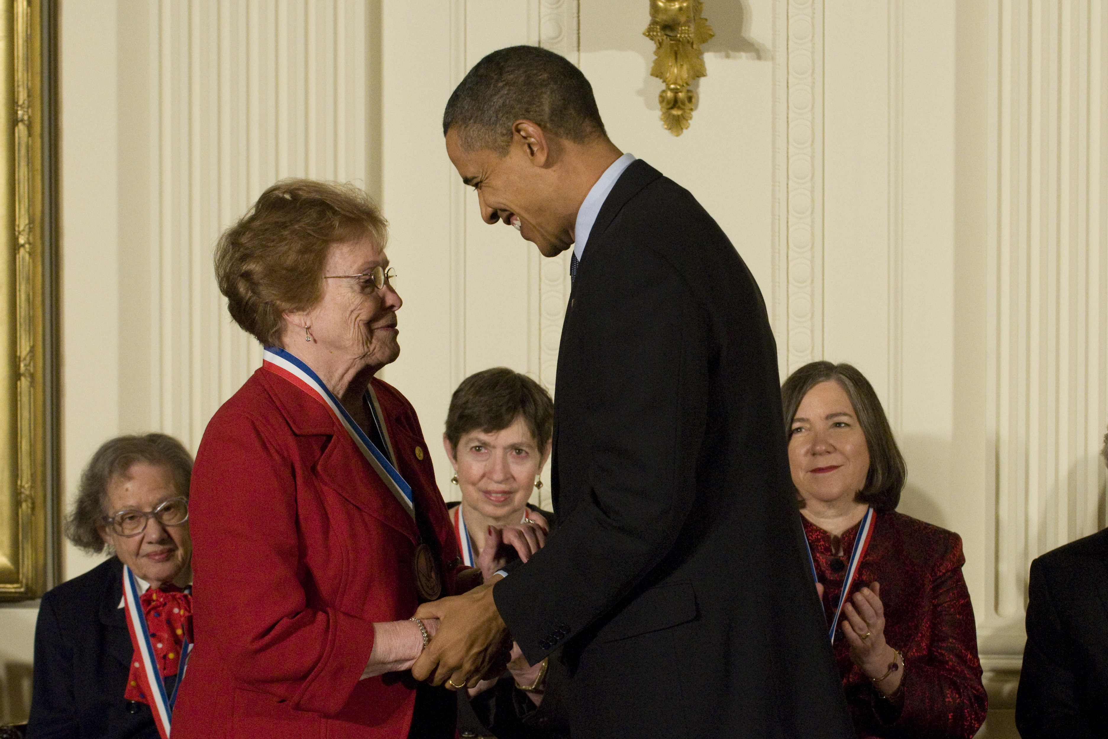 Photograph of chemist Helen Murray Free, 2009 National Medal of Technology and Innovation Laureate. Helen M. Free, Miles Laboratories, received the 2009 National Medal of Technology and Innovation medal from President Obama on November 17, 2010. Photo by Ryan K. Morris Photography. Please credit: National Science and Technology Medals Foundation, Ryan K. Morris. Downloaded with permission from the National Science and Technology Medals Foundation, as part of the Wikipedian in Residence initiative at the Chemical Heritage Foundation.